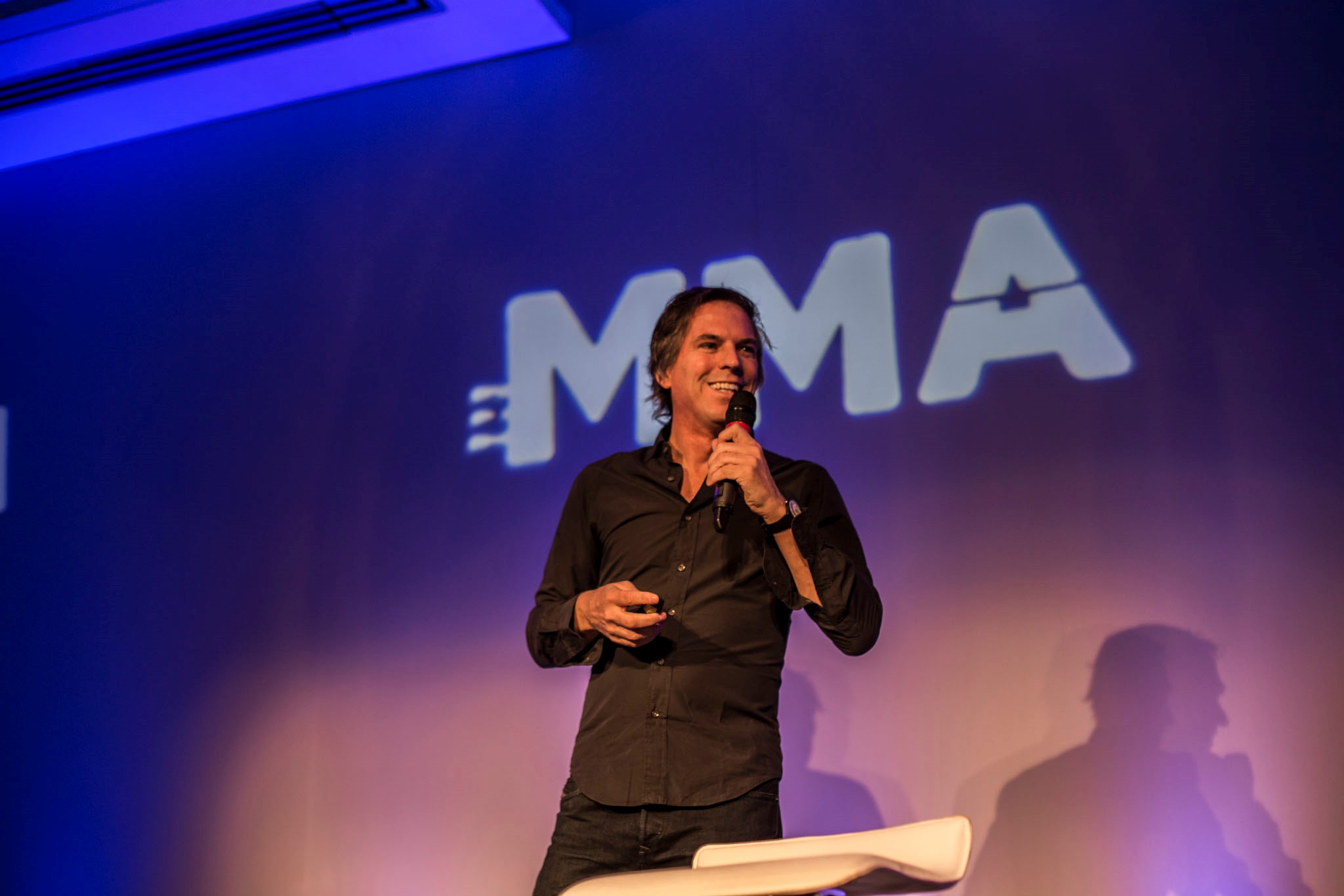 Alec Oxenford at the Mobile Marketing Association